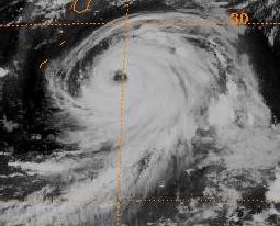 Infrared Thad1981: National Climatic Data Center GIBBS satellite archive ftp://eclipse.ncdc.noaa.gov/pub/isccp/b1/.D2790P/images/1981/222/Img-1981-08-10-15-GMS-1-IR.jpg